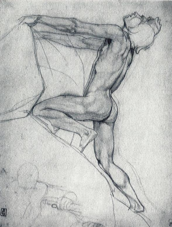 A boy climbing the rock (drawing for "Brazen Serpent", Fyodor Bruni, 1820s or 1830s)